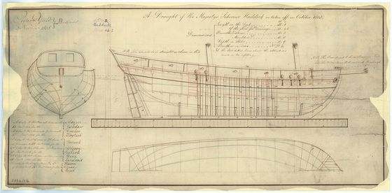 Technical drawing; paper; black ink